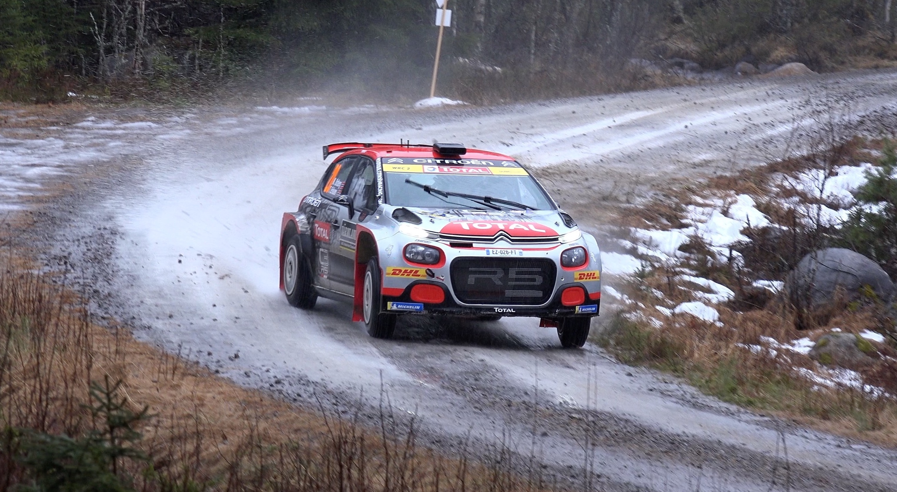 Mads Østberg during Rally Sweden 2020.